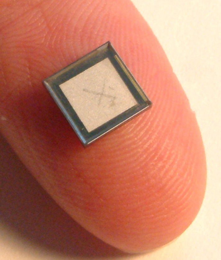 Fraunhofer IZM Micropump: The world's smallest yet fully bubble tolerant micropump